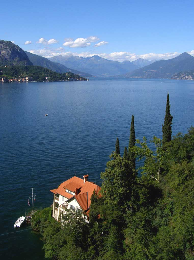 Villa Lucertola, Lake Como (Italy).